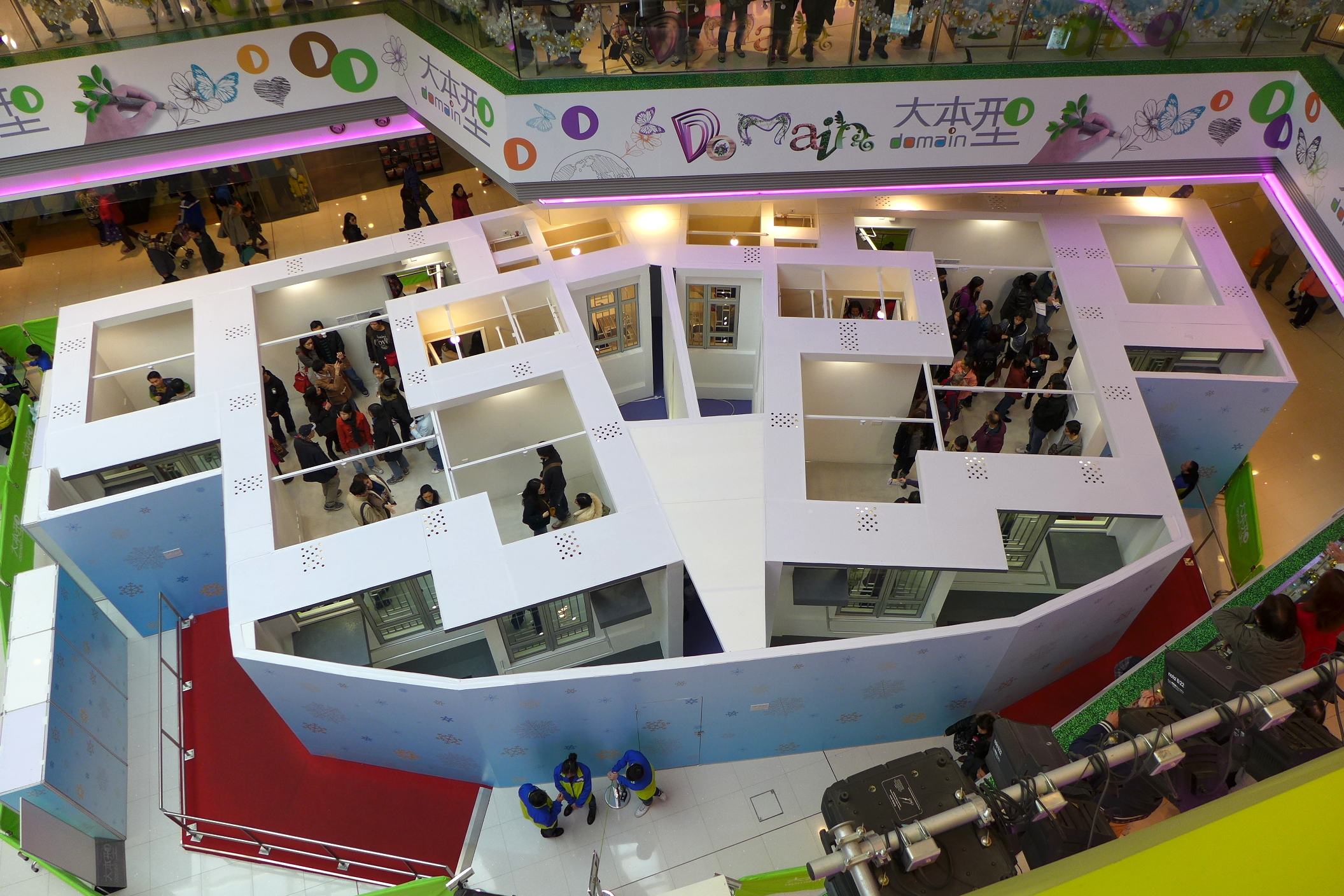 Home Ownership Scheme 2014 Show flat in domain mall